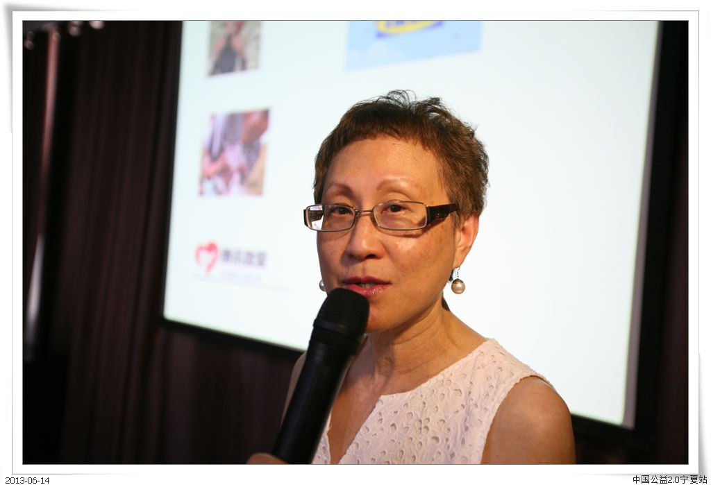 Jing Wang at the Ningxia Web 2.0 workshop